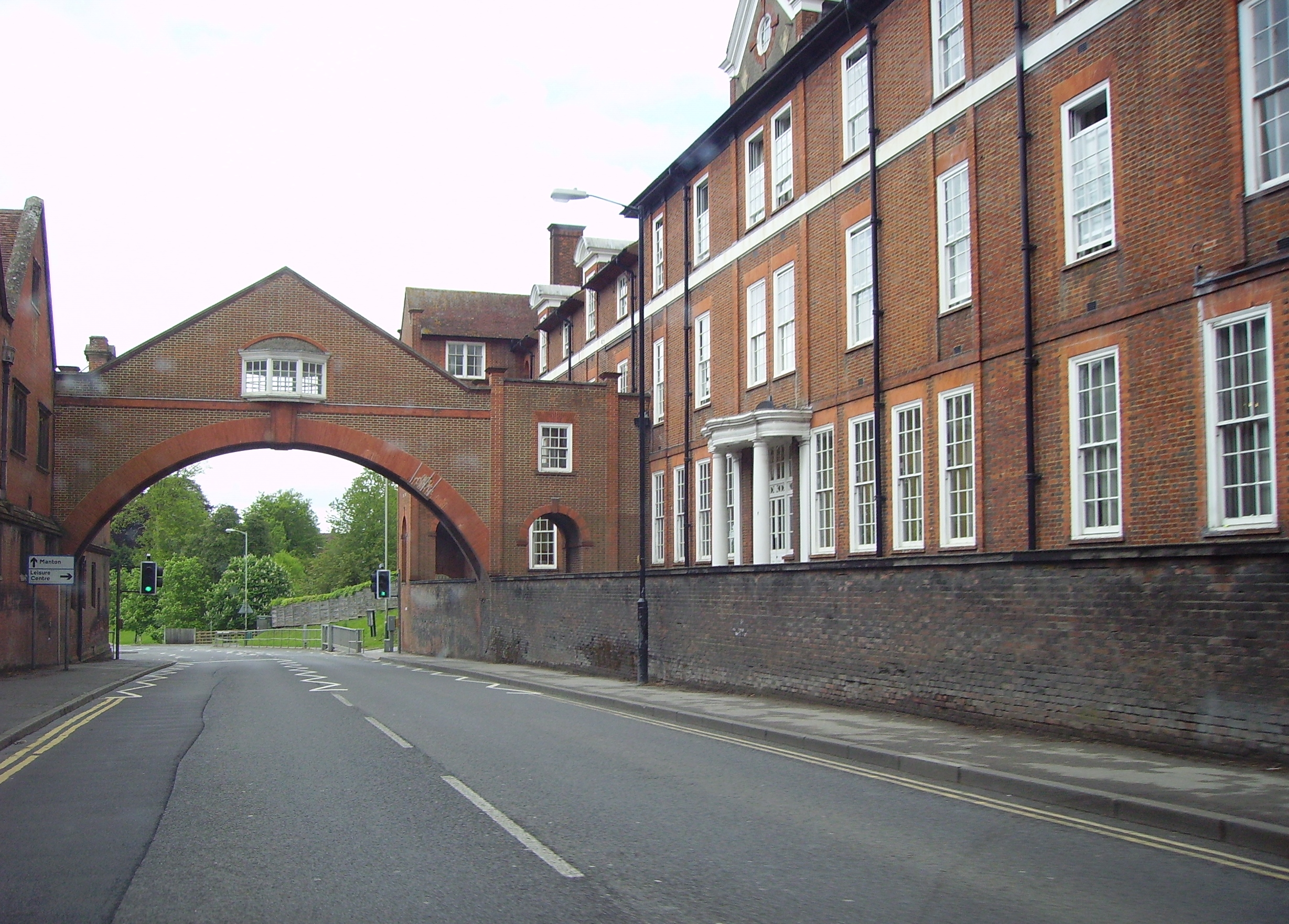 Photographer: User:Ballista